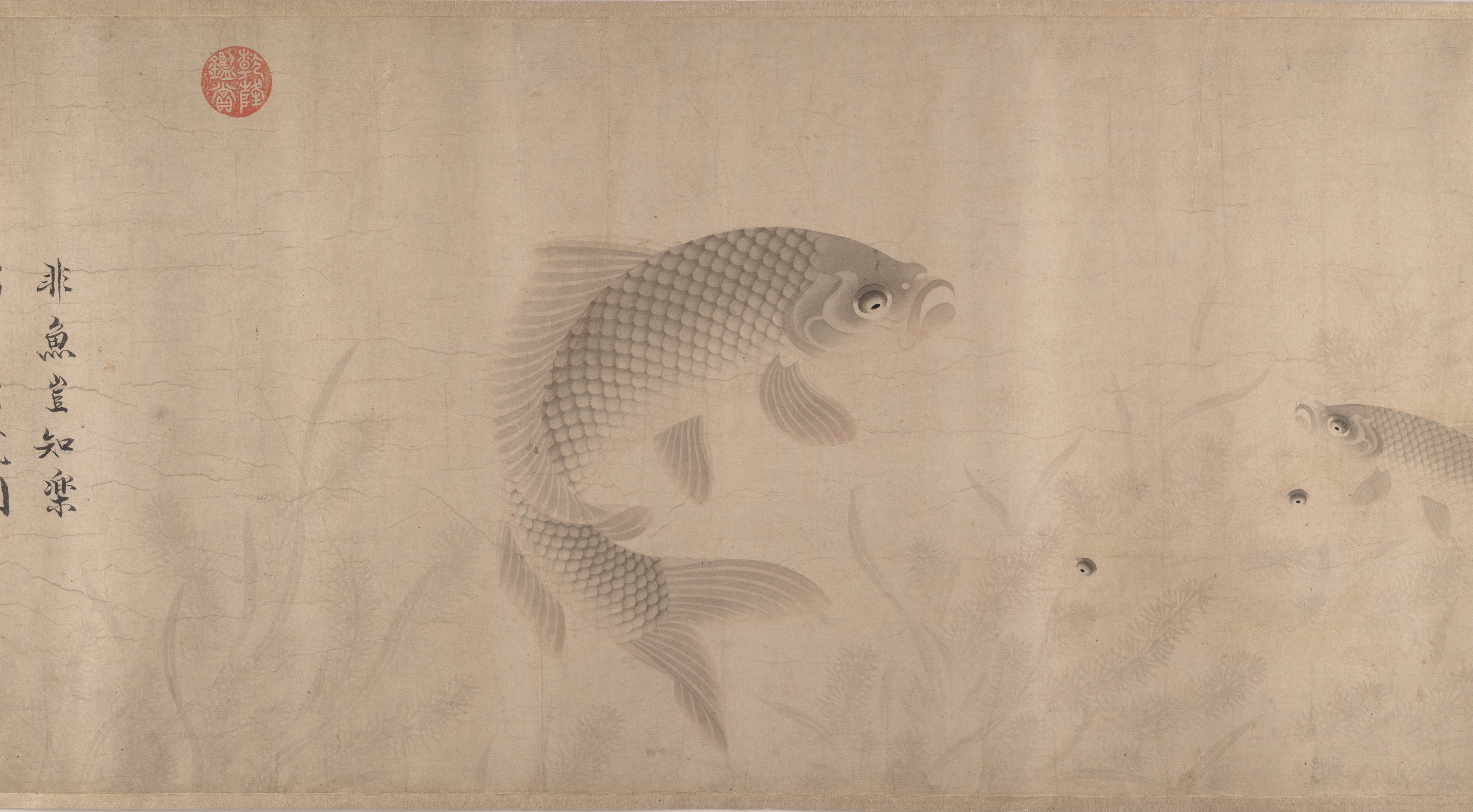 元 周東卿 漁樂圖 卷 The Pleasures of Fishes Artist: Zhou Dongqing (Chinese, active late 13th century) Period: Yuan dynasty (1271–1368) Date: dated 1291